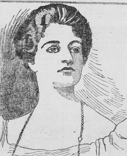 Anna Austin Cassin (1883-1943) was the wife of first Archibald Jermain McClure and then Parker Corning.